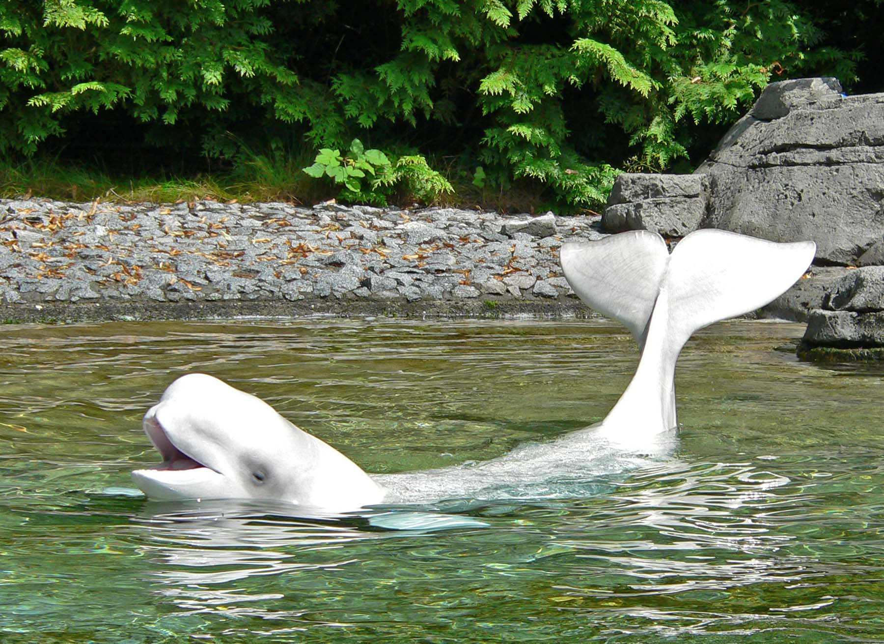 Photo of Delphinapterus leucas (beluga) in shallows at the Vancouver Aquarium